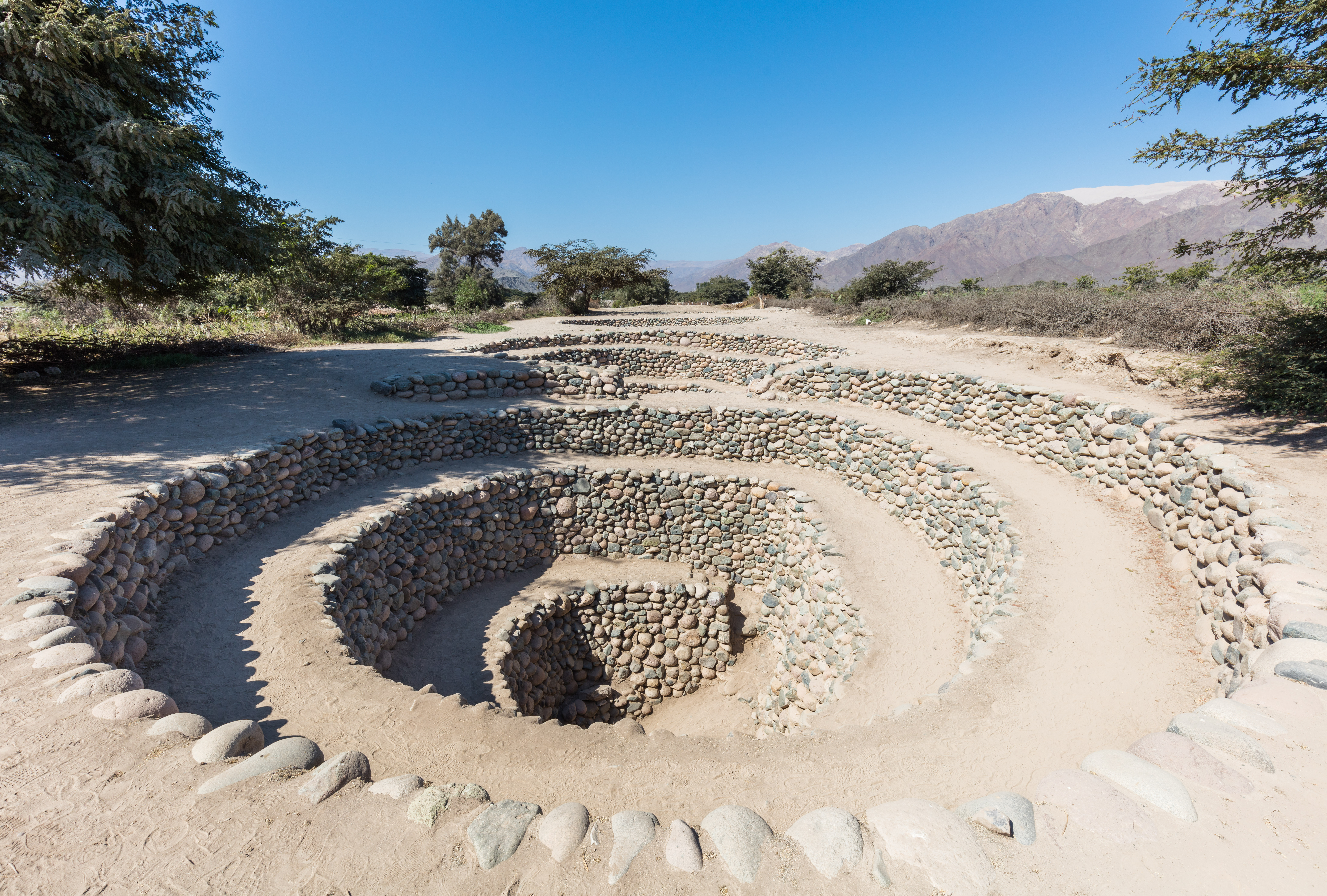 View of some of the Cantalloc aqueducts located near the city of Nasca, Peru. There are more than 40 and they were built by the Nasca culture, a pre-Inca civilization of Nazca, about 1,500 years ago. The aqueducts ensured the supply of water to the city of Nazca and the surrounding fields, allowing the cultivation of cotton, beans or potatoes in an arid region.